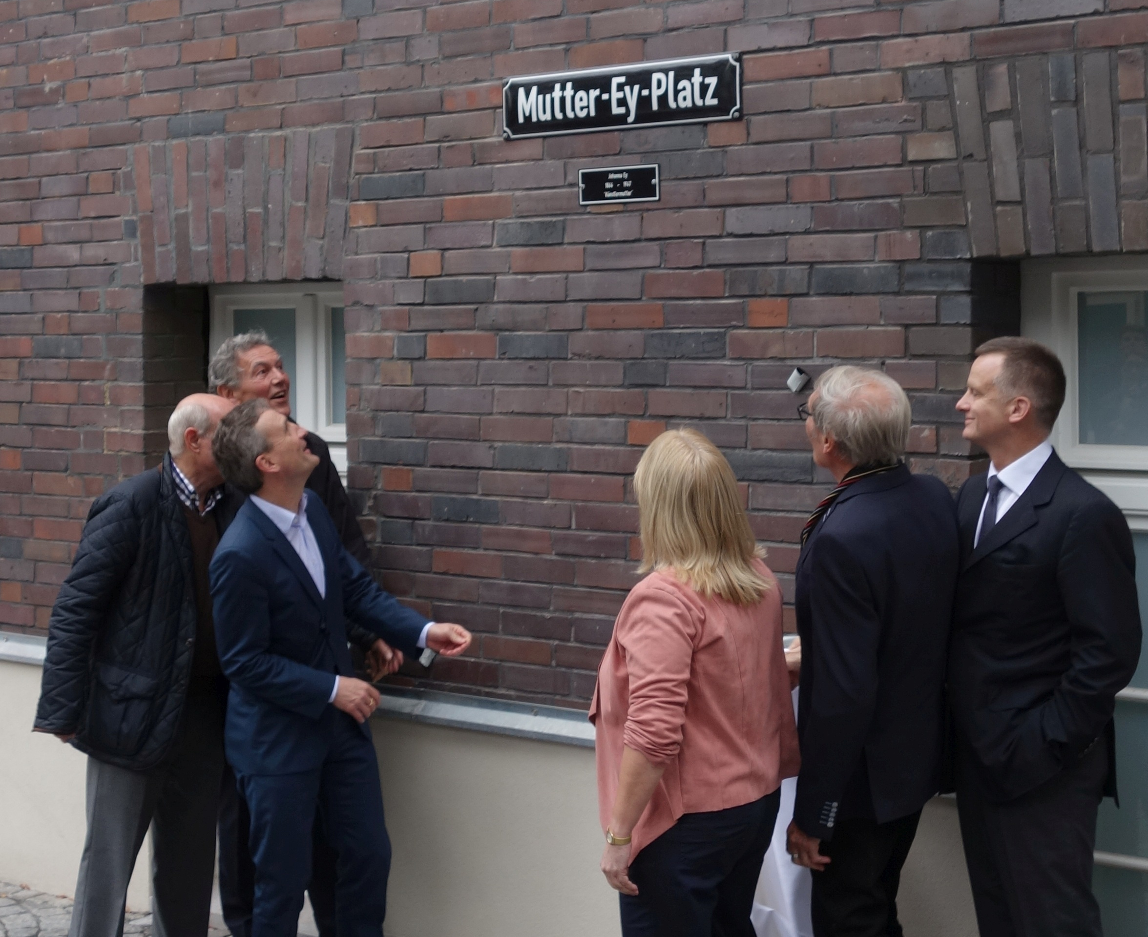 Einweihung des Mutter-Ey-Platzes in Düsseldorf am 25. Oktober 2017. Von links: 1. 2. 3. Oberbürgermeister Thomas Geisel 4. Bezirksbürgermeisterin Marina Spillner 5. Bildhauer Bert Gerresheim 6. Uwe Schmitz, Vorstandsvorsitzender der Frankonia Eurobau